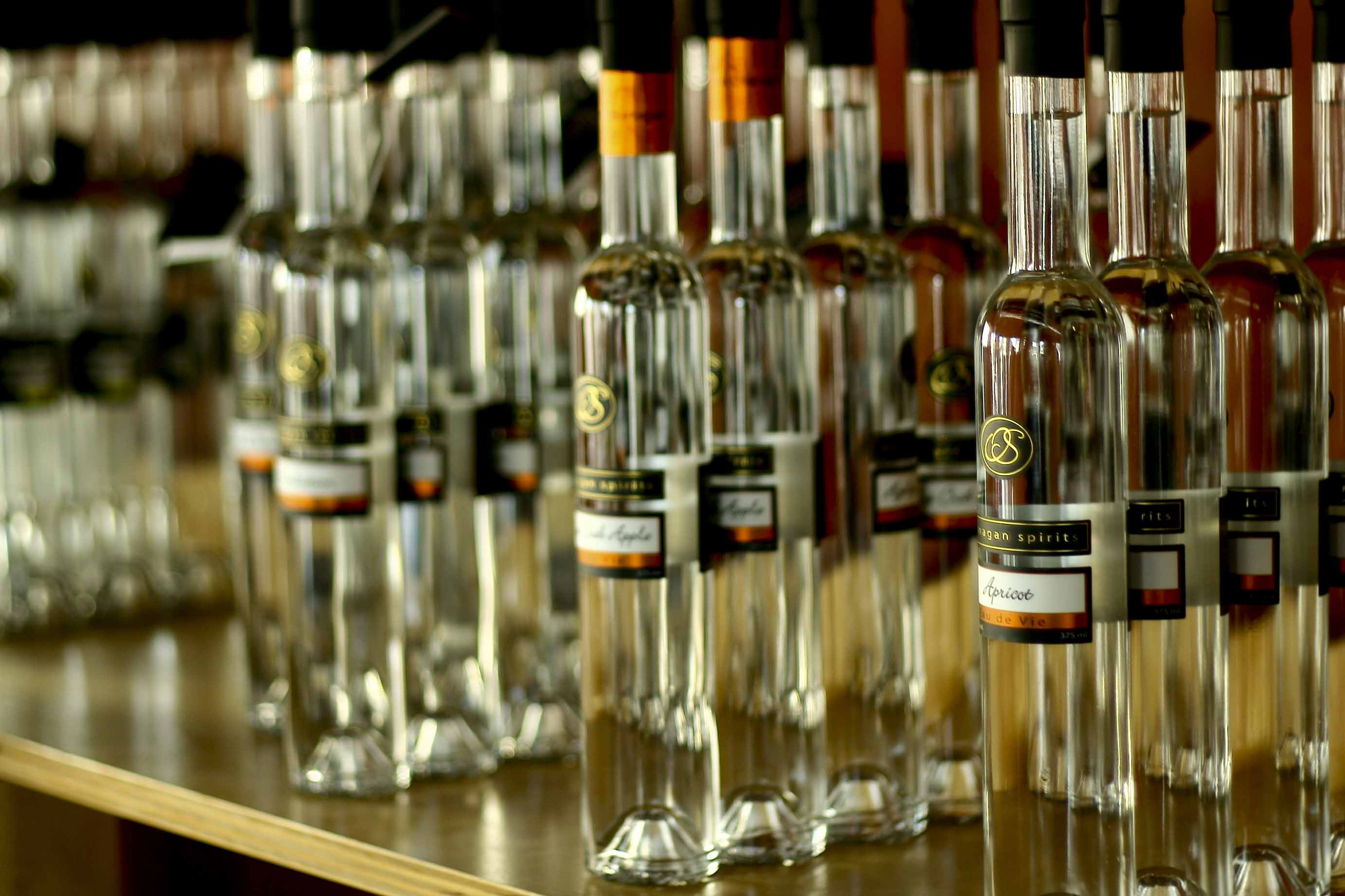 Eau de vie bottles.